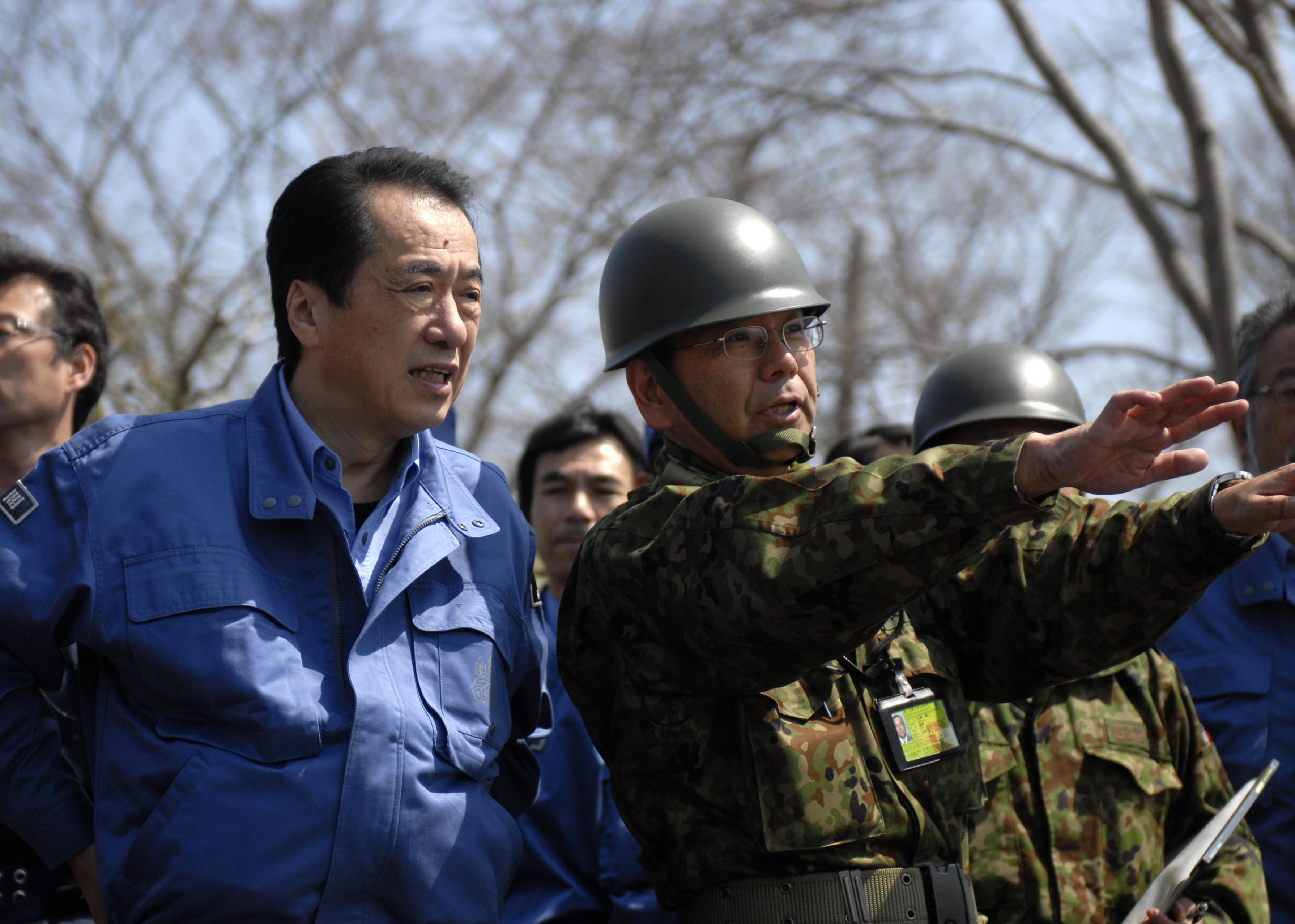 Japan's Prime Minister Naoto Kan is briefed about the state of Ishanomaki High School by Japanese Ground Self Defense Force Lt. Gen. Yuji Kuno, the Comander of the 6th Division, JGSDF, at Ishanomaki City's high school (uploader's note; Ishinomaki Commercial High School, 宮城県石巻商業高等学校),[1] April 10. Kan visited the school and took time to shake hands and voice his appreciation of the U.S.'s support in the wake of the level 9.1 earthquake and the ensuing tsunami, March 11. 40th Public Affairs Detachment Photo by Sgt. Derek Kuhn Date Taken:04.10.2011 Location:AICHI, JP Related Photos